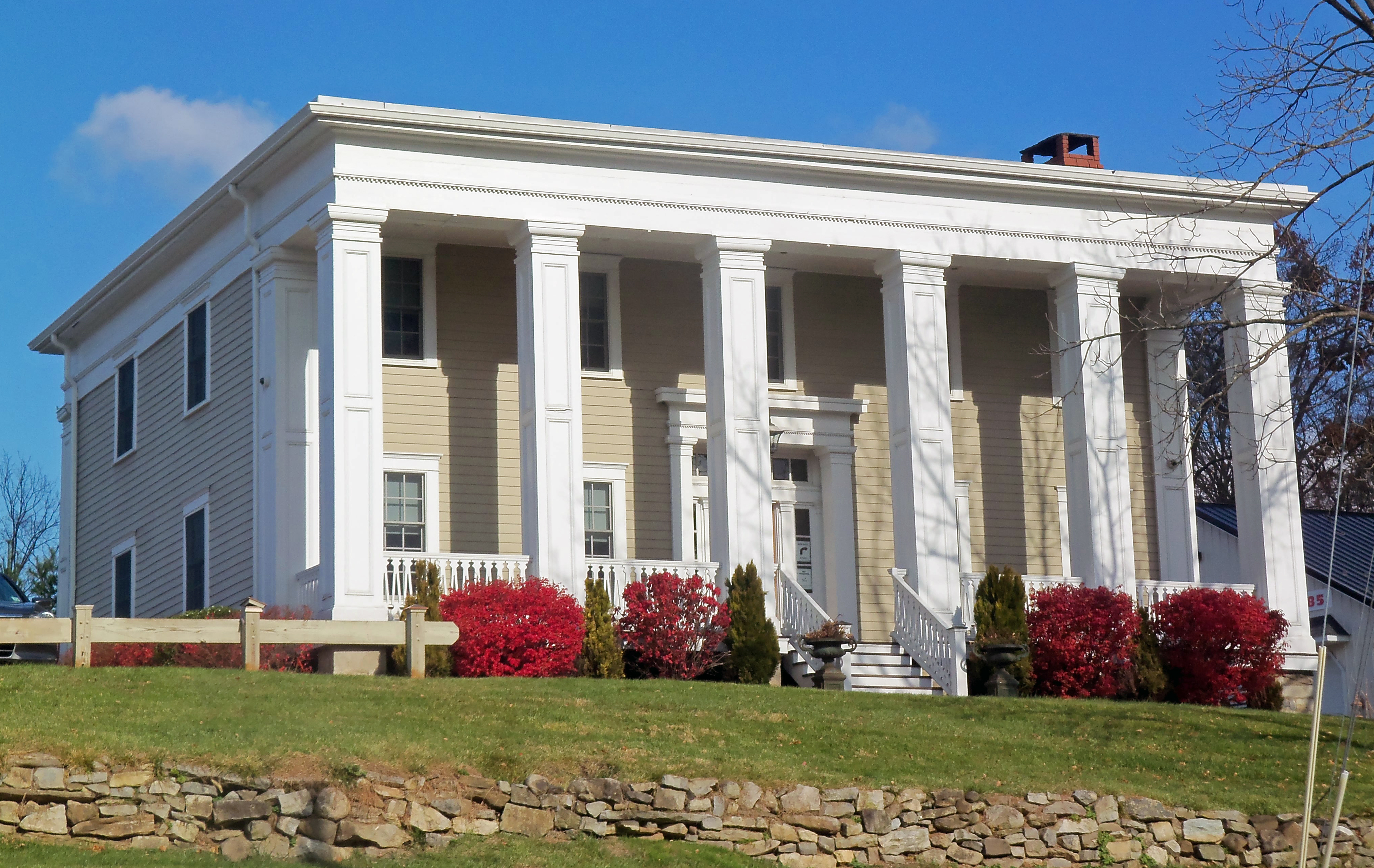 The Lawrence Mansion, an 1841 wooden Greek Revival house in Hamburg, Sussex County, New Jersey. It is on the National Register of Historic Places.